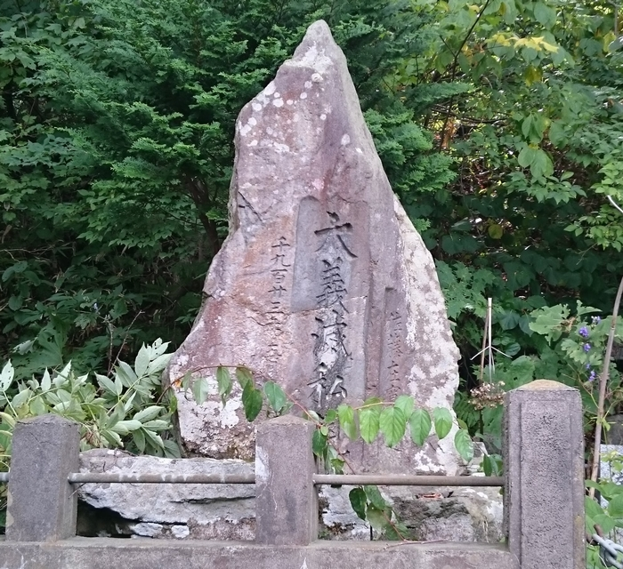 The stele of Zaikan Satō (佐藤在寛), in the Cape Tachimachi